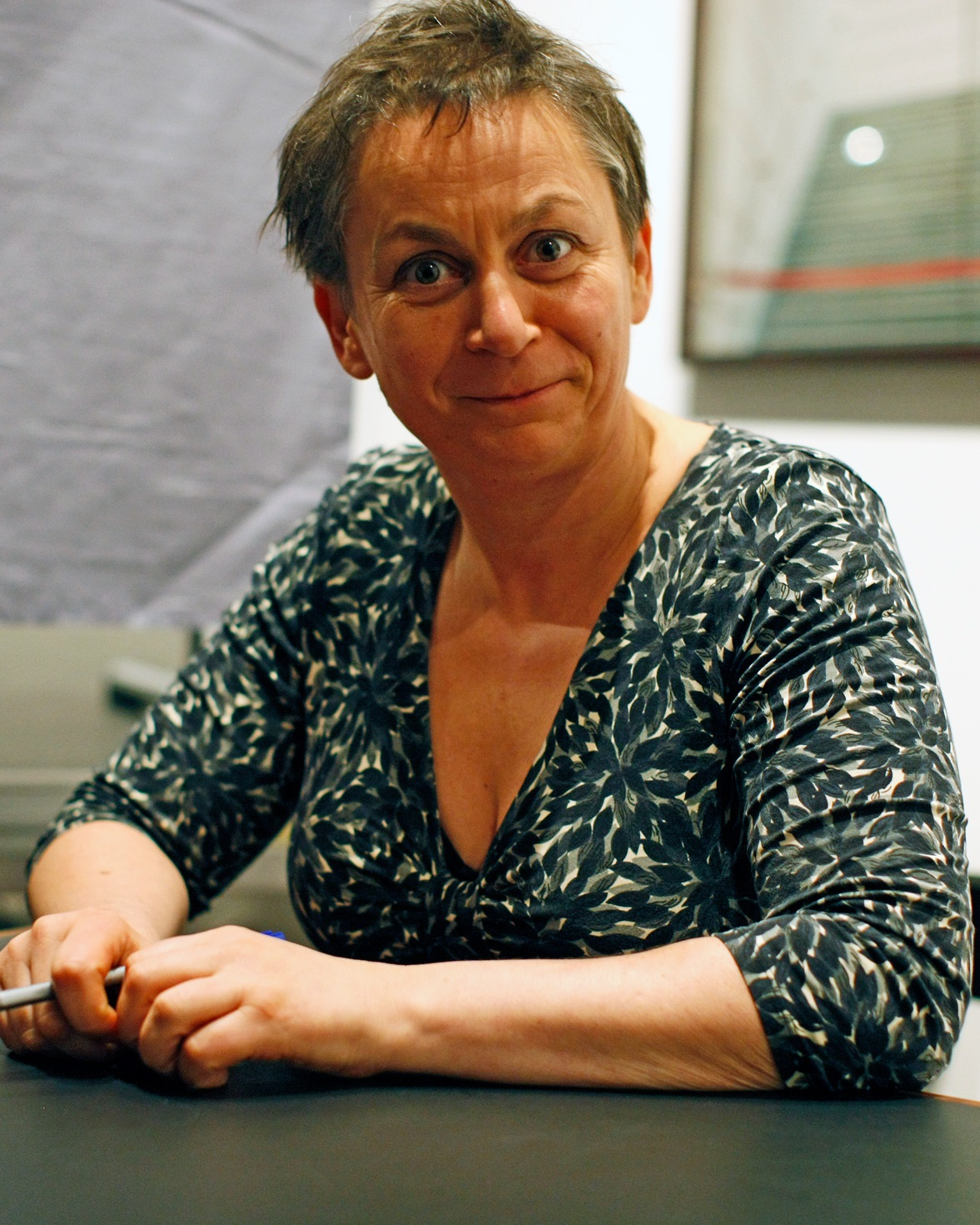 Anne Enright at Literaturhaus Cologne/Germany, 18th November 2008